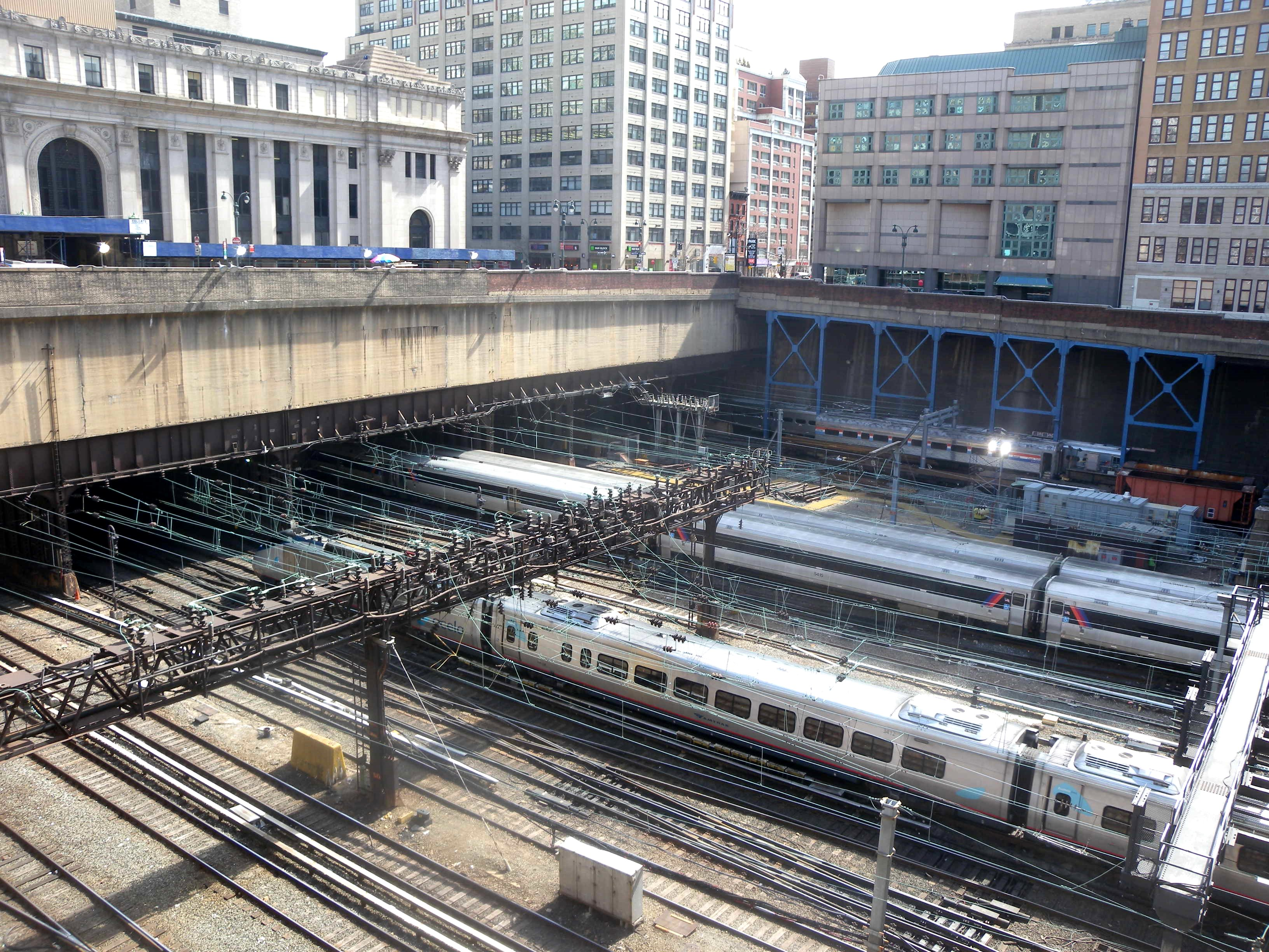 Looking south as eastbound Acela (nearest train) approaches 9th Avenue.